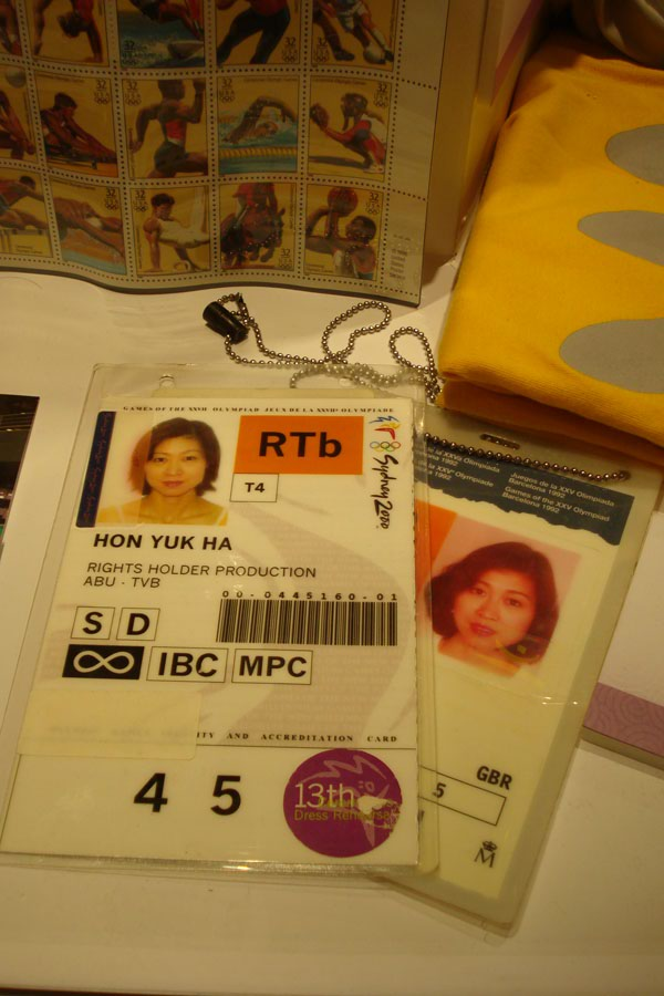 Olympic Identity and Accreditation Card of 2000 and 1992 Olympic Game, belonged to Hon Yuk- ha, famous sport journalist in Hong Kong